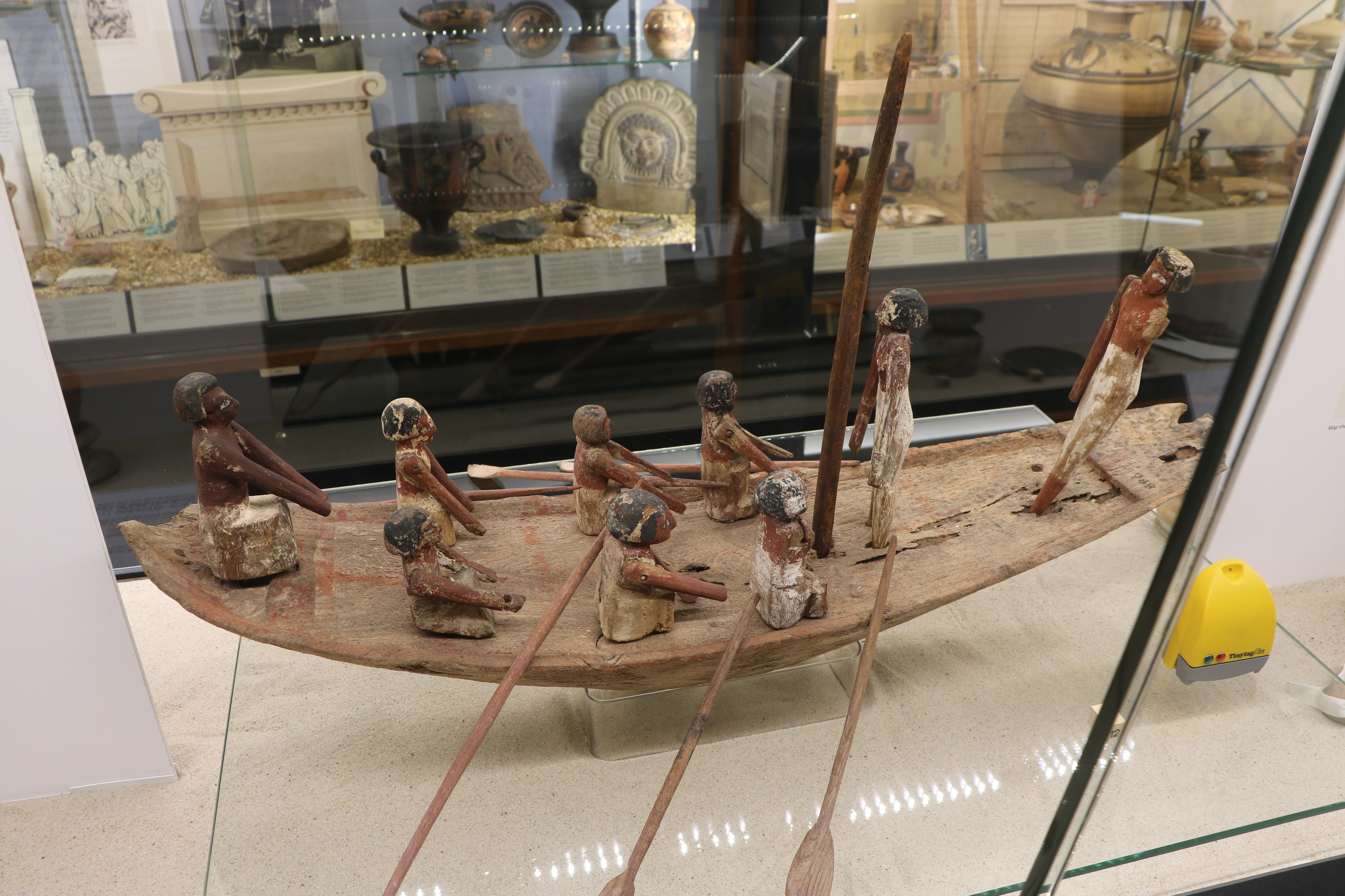 Ure Museum of Greek Archaeology E.23.3